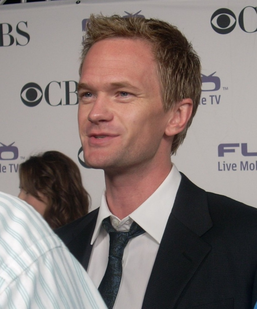 Neil Patrick Harris - CBS Comedies Premiere Party Sponsored by Flo TV, Area on La Cienega, Los Angeles - Sept. 17, 2008